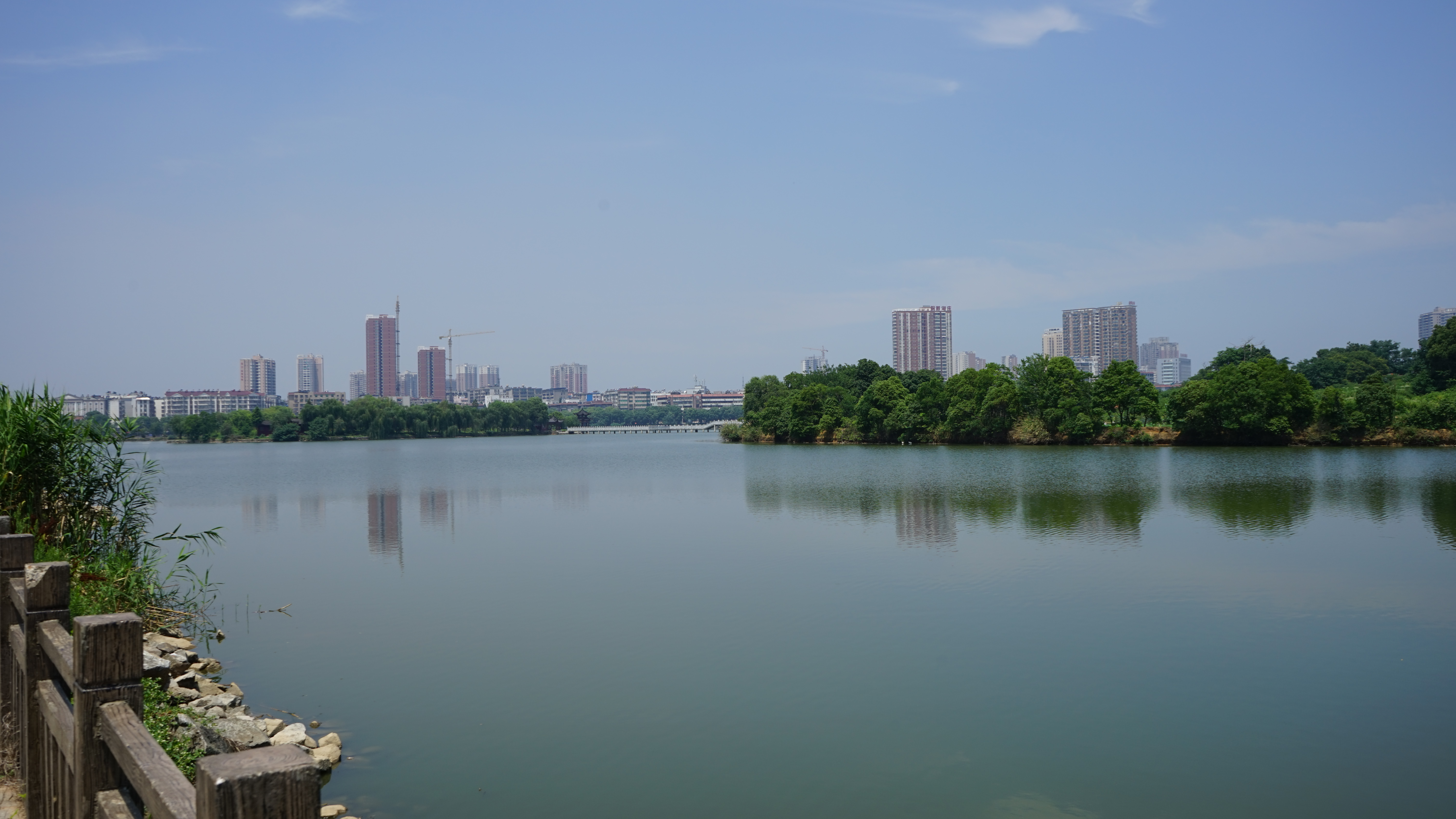 Red Star Lake and nearby buildings. Viewed from Qinglong Road.